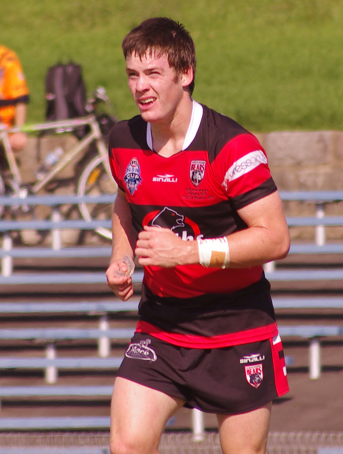 Luke Keary